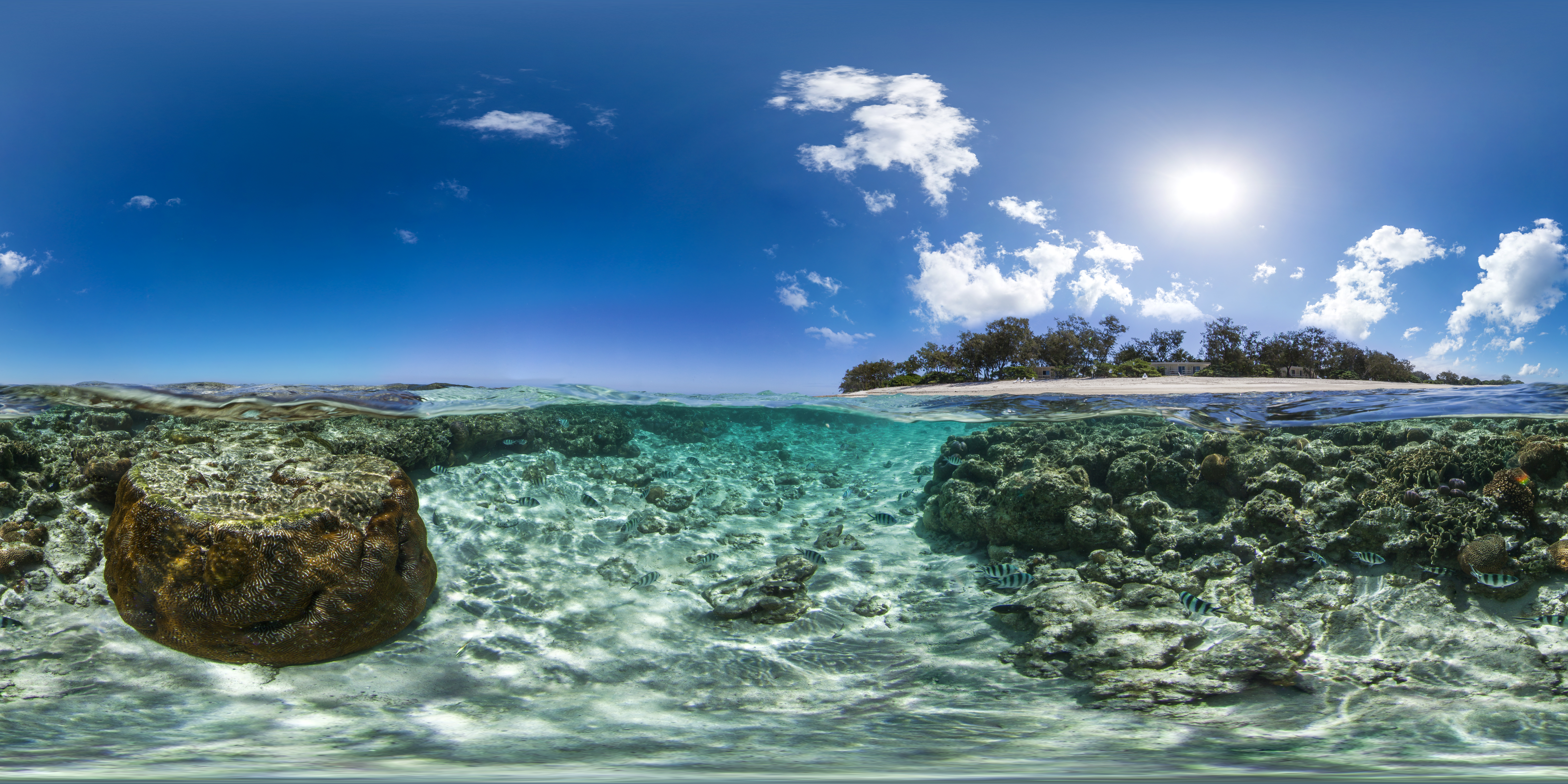 An image of the coral reef near Lady Elliot Island, taken using the Seaview SVII camera